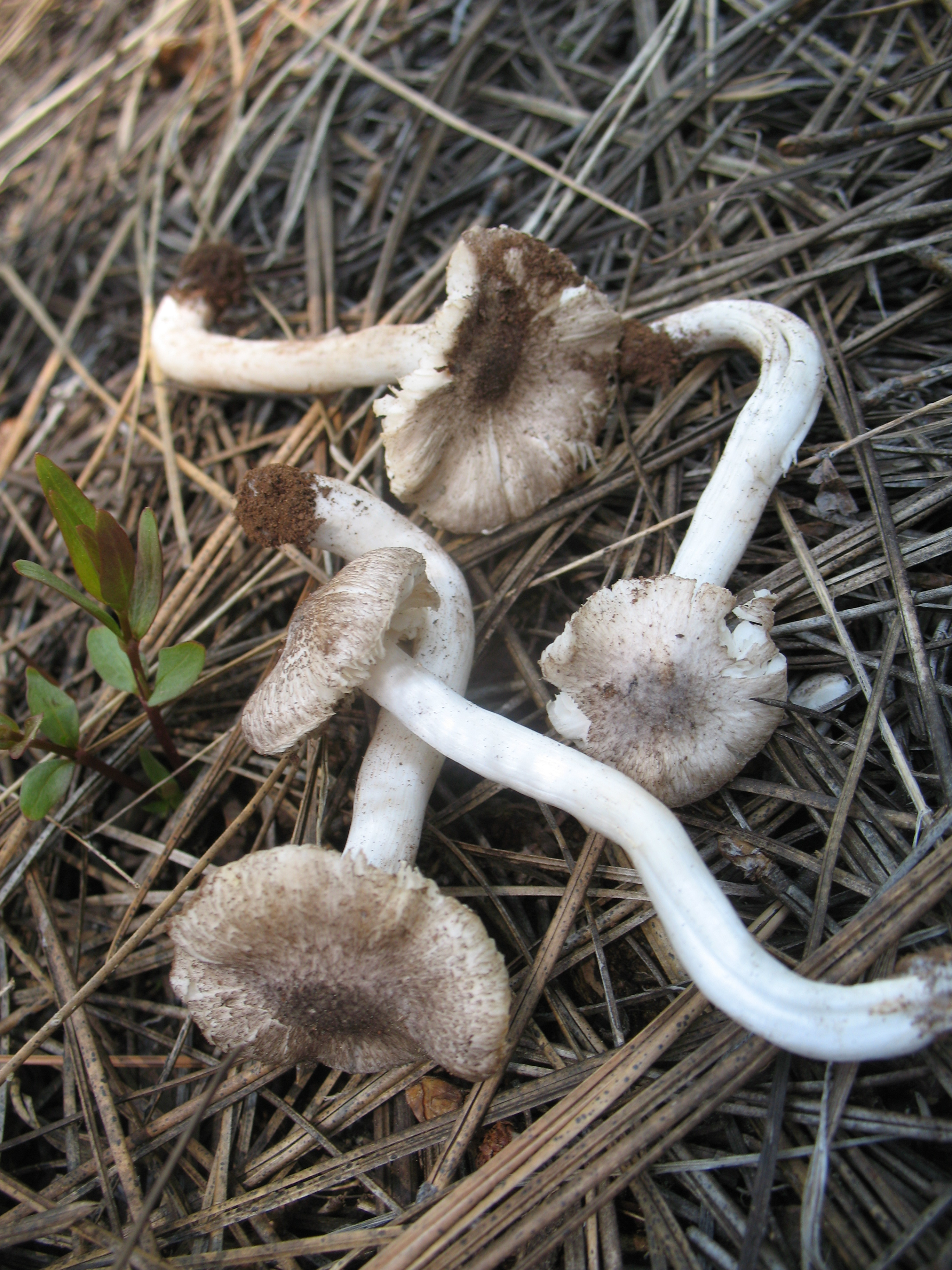 Fruit bodies of the agaric fungus Tricholoma moseri Singer. Photographed in Eastern Shasta-Trinity National Forest, Siskiyou Co., California, USA.